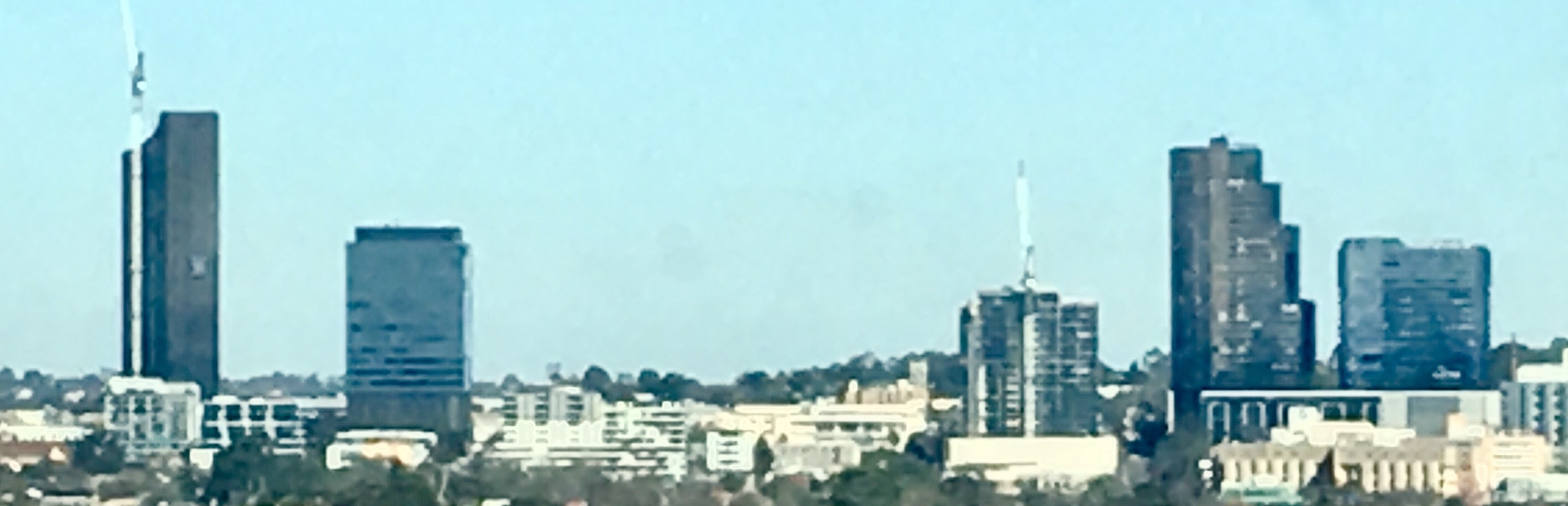 View of Box Hill skyline from Doncaster, Victoria (2019)